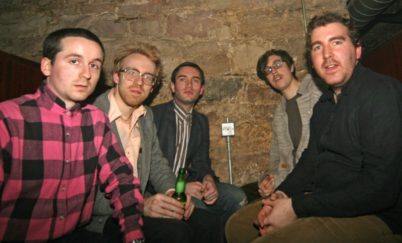 British band Hot Chip sitting at the Cabaret Voltaire on the day of their performance there on May 25, 2006. From left to right: Alexis Taylor, Al Doyle, Owen Clarke, Felix Martin, and Joe Goddard